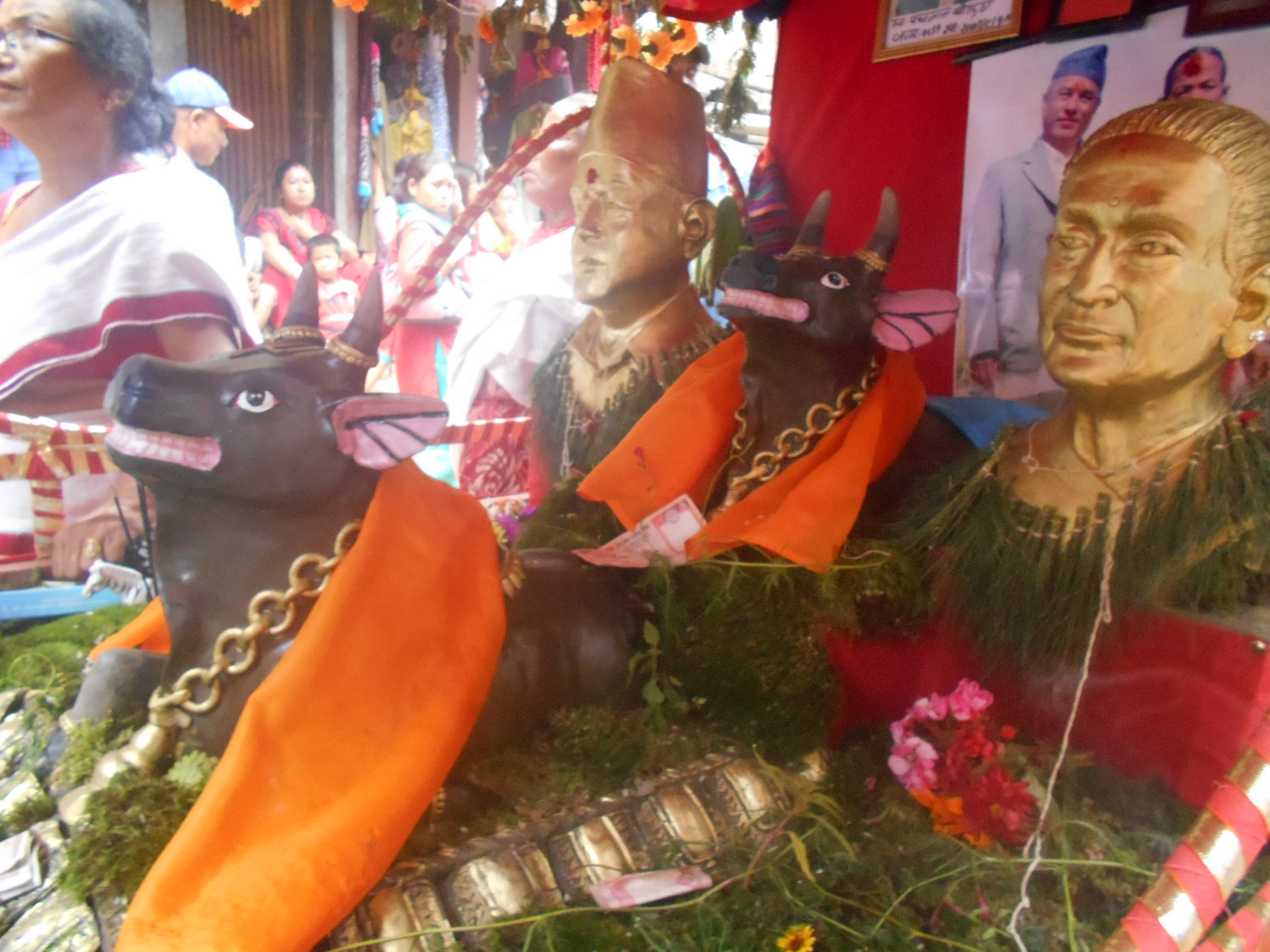 भक्तपुर गाईजात्रा